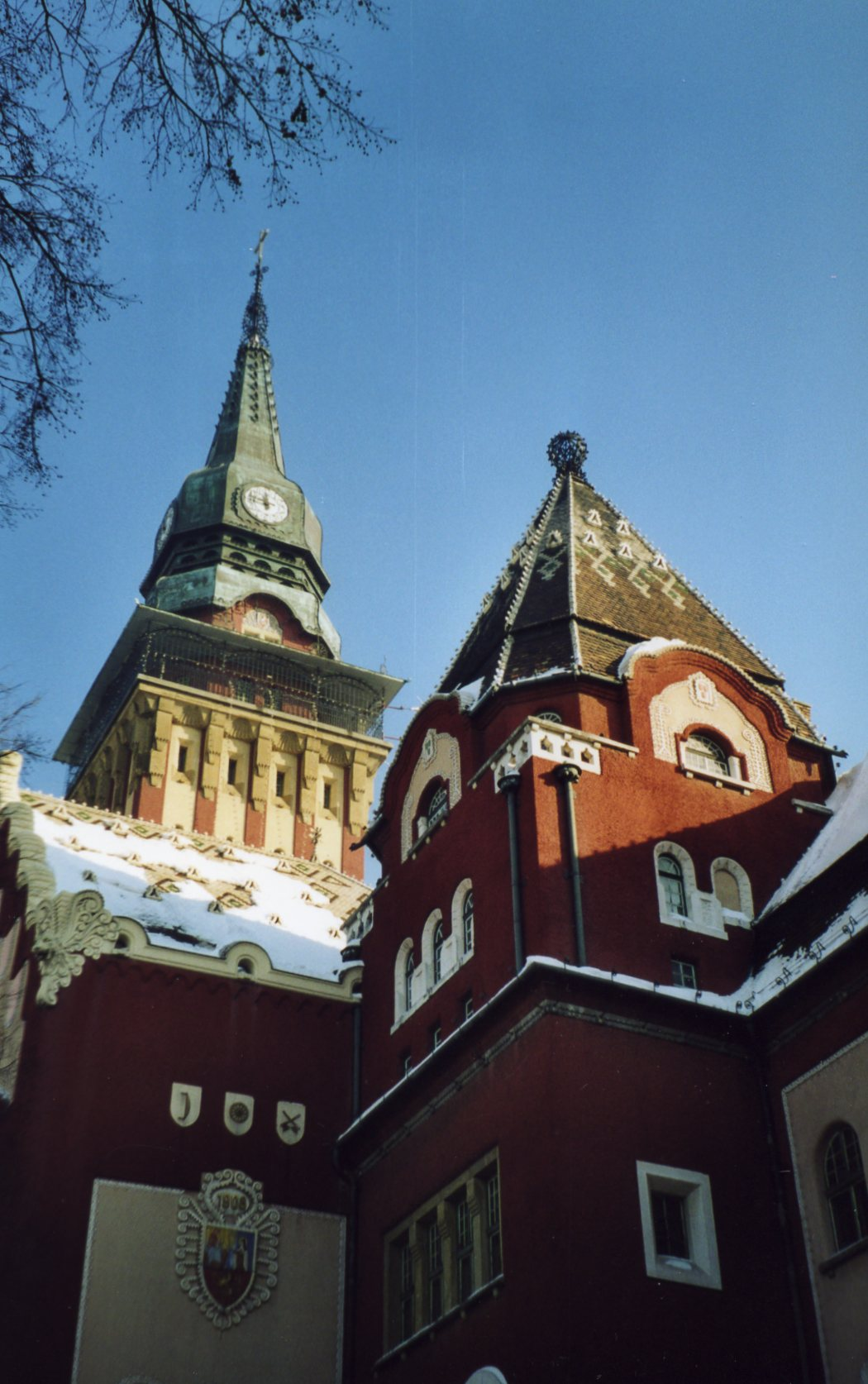 Subotica, Serbia. Town Hall. Photo: Frans van Nes, January 2003